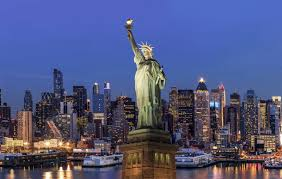 my work